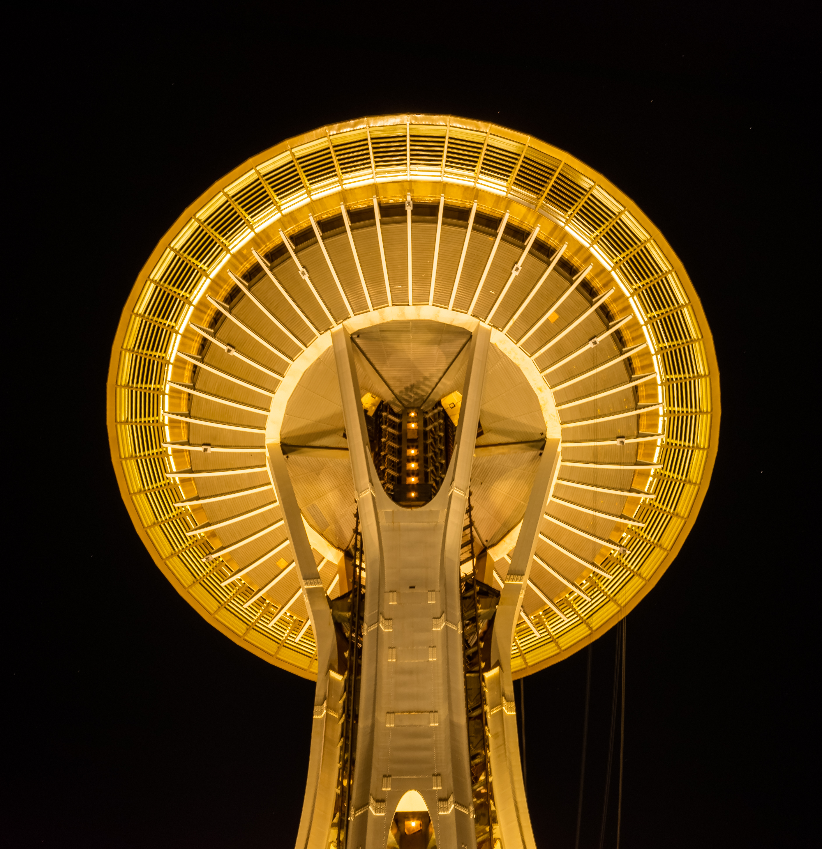 Space Needle, Seattle, Washington, USA